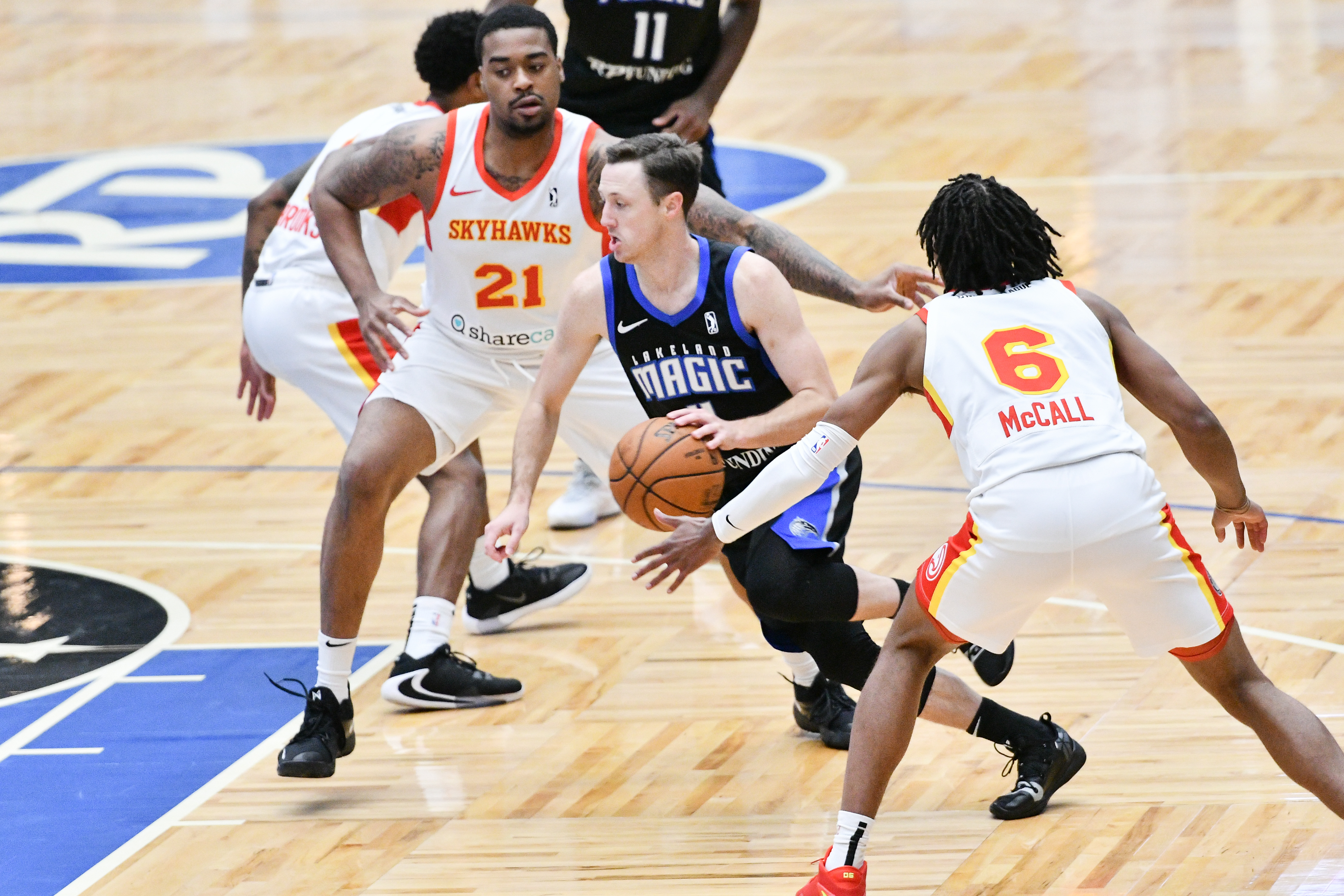 Josh Magette. Lakeland Magic vs College Park Skyhawks. RP Funding Center. Lakeland, Fla. Nov. 16, 2019. (Photo by Tom Hagerty.)